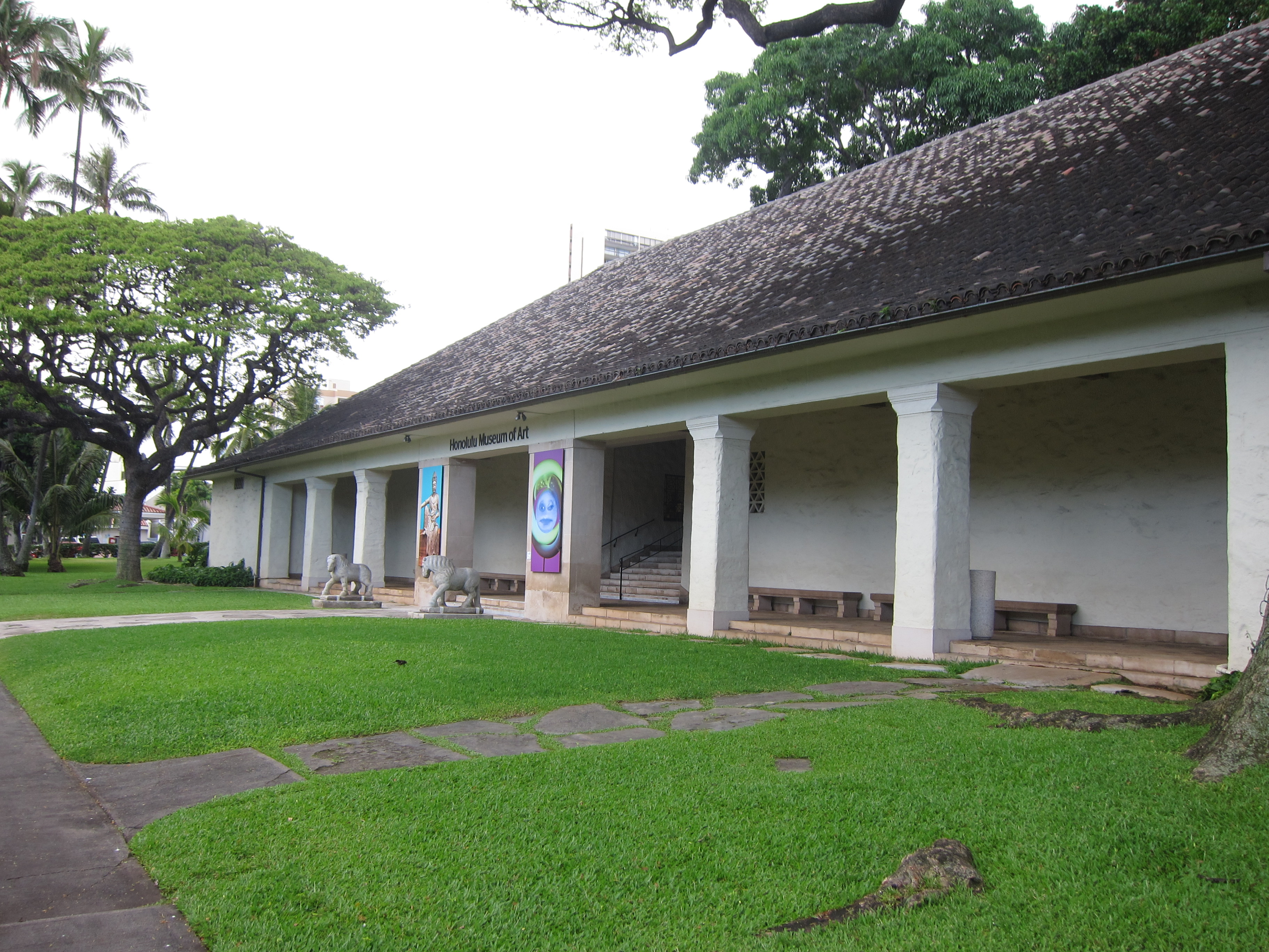 Honolulu Museum of Art — entrance veranda and gardens designed by Bertram Goodhue in the Hawaiian and Spanish Colonial Revival styles